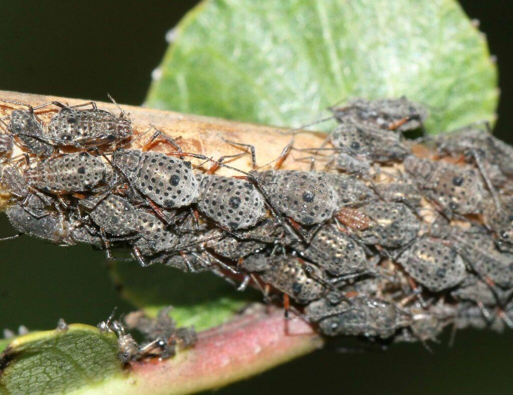 Colony of the giant willow aphid, Tuberolachnus salignus with a live-birth in Welzheim, Swabian Forest, Baden-Wuerttemberg, Germany